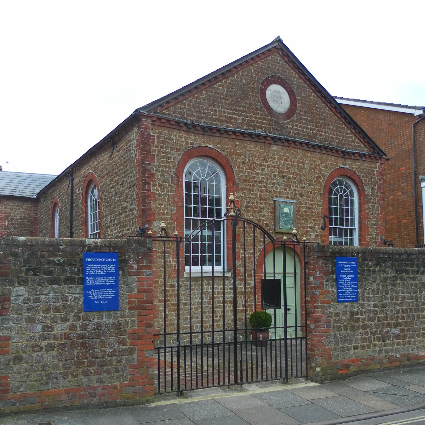 Providence Chapel, Chapel Street, Chichester, West Sussex, seen from the east